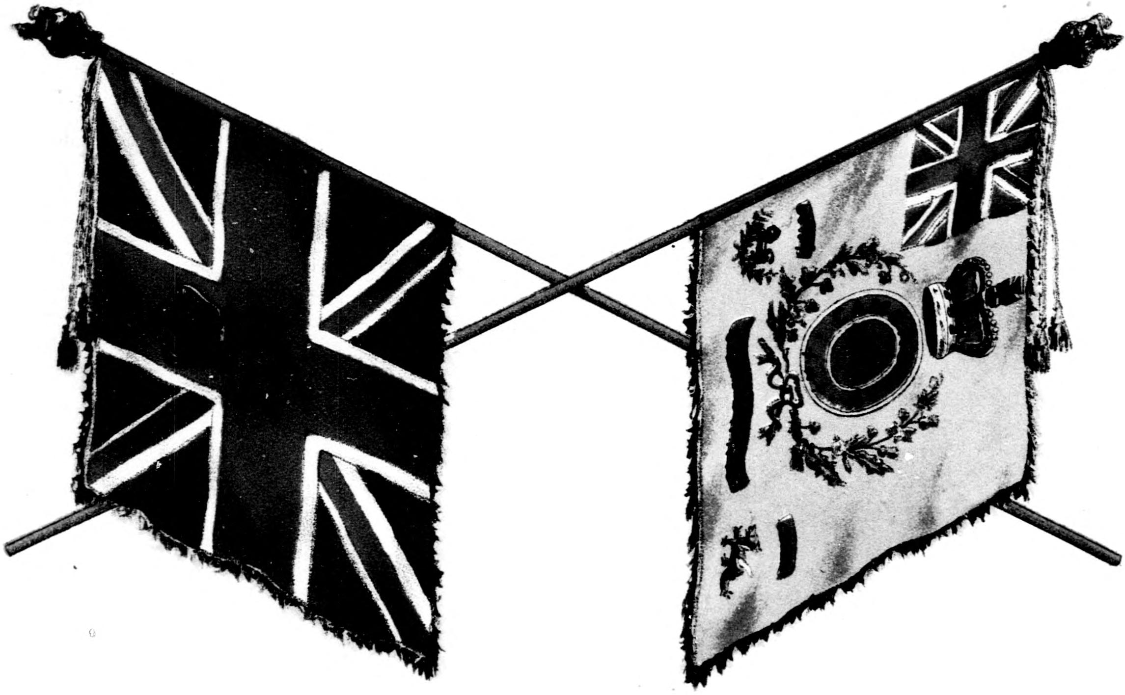 Colours of the 26th Cameronian Regiment. Presented by Lady Belhaven at Edinburgh on 21 April 1862.